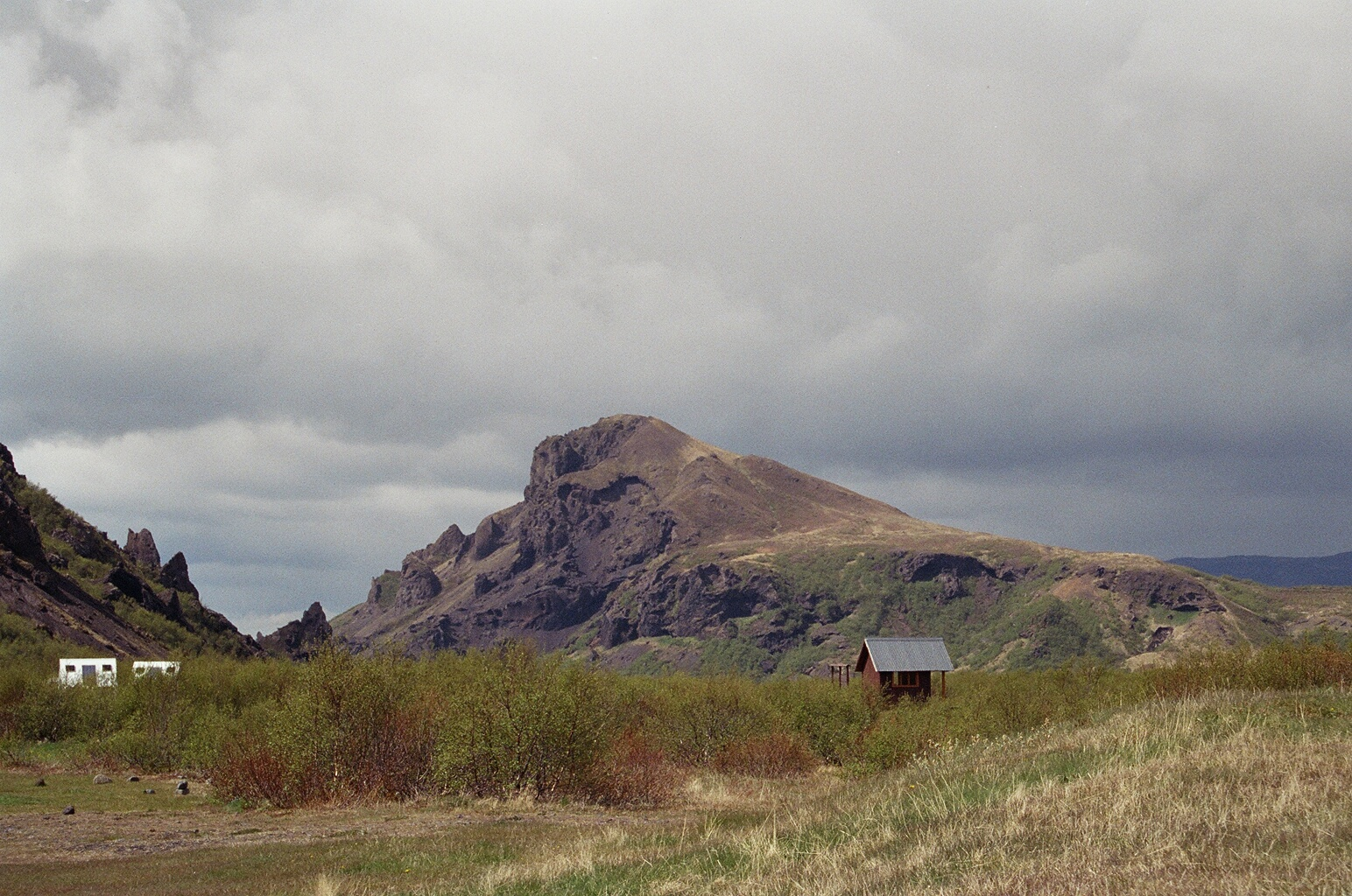 Mount Valahnúkur, seen from Básar in Þórsmörk, South-Iceland.